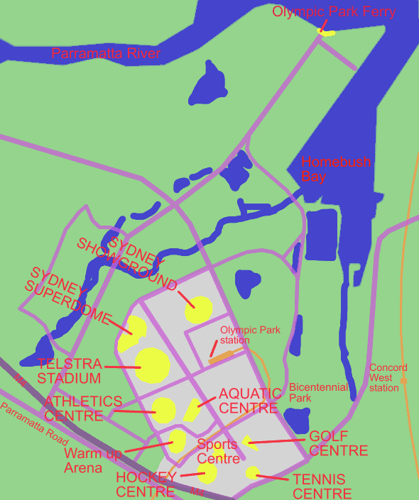 Map of Sydney Olympic Park with main sports venues shown in yellow. I made the map using information from this map using a different design.